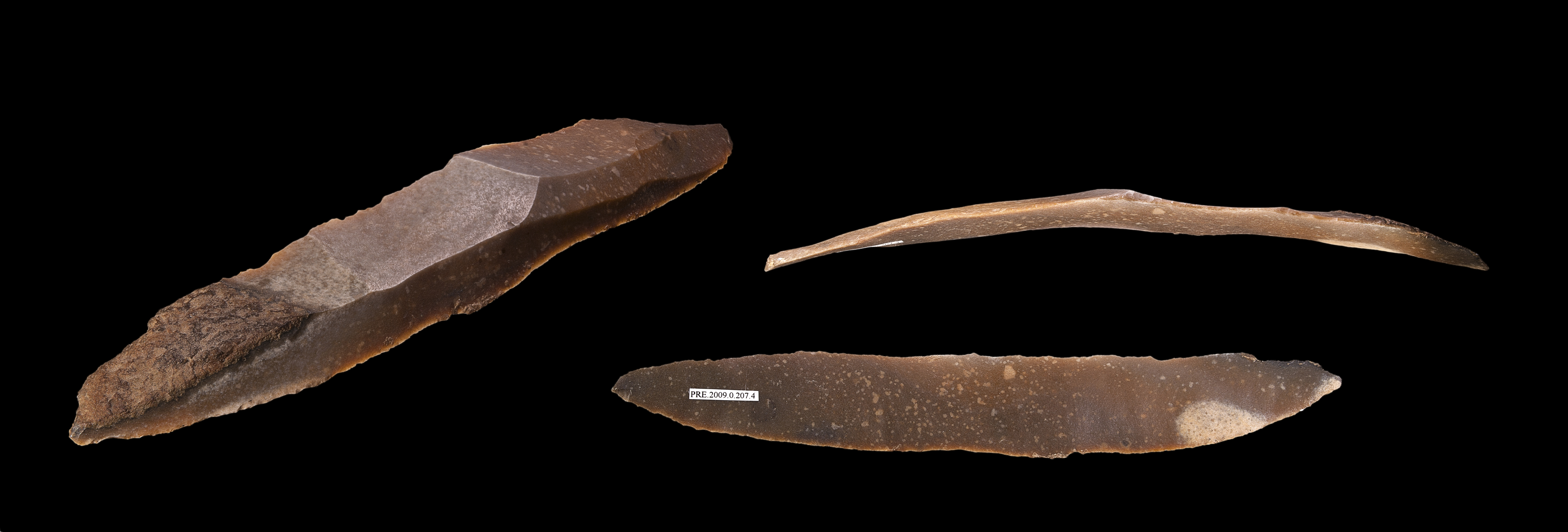 Blade - Different views of the same specimen